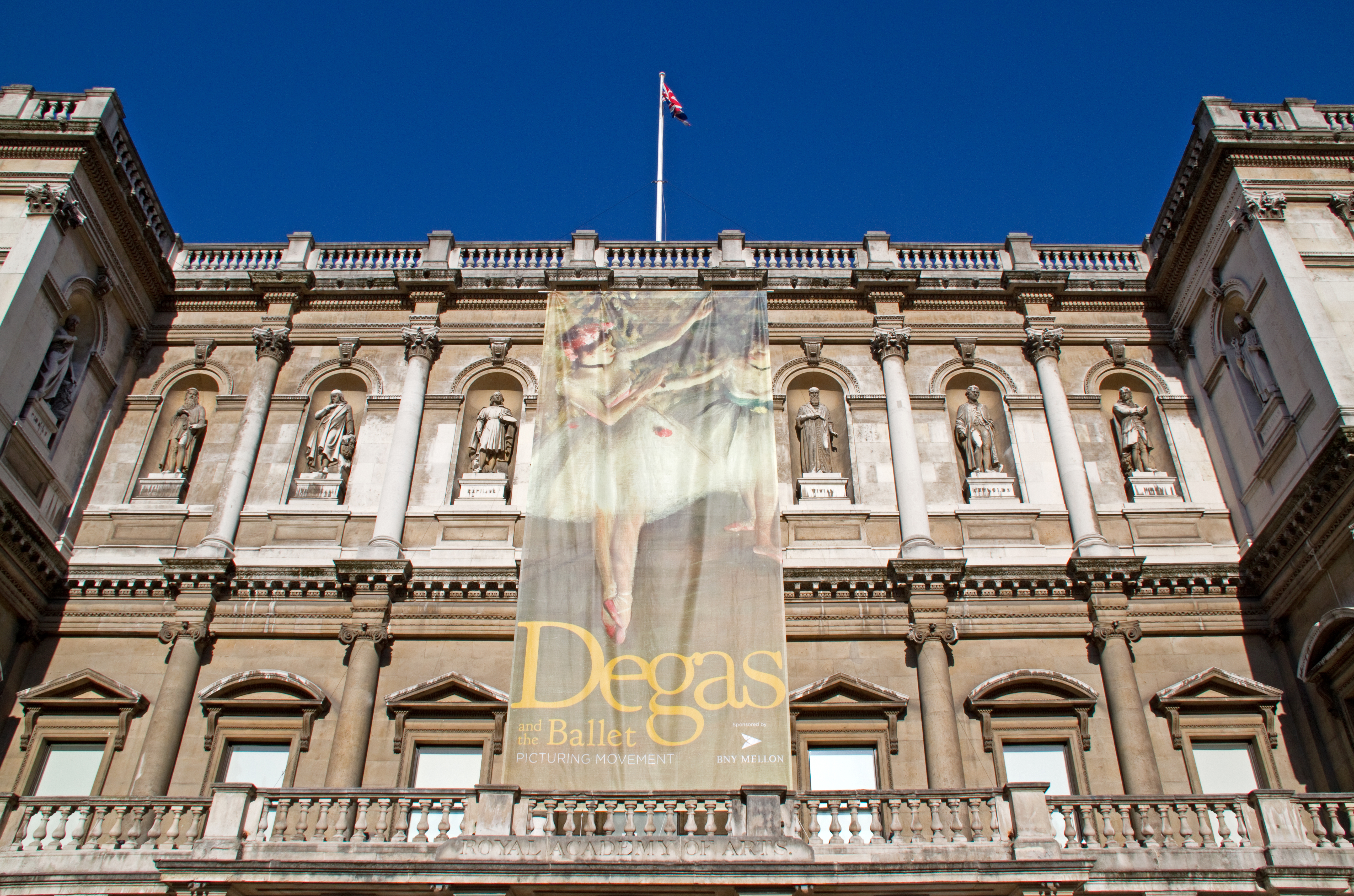 Degas at the Royal Academy of Arts